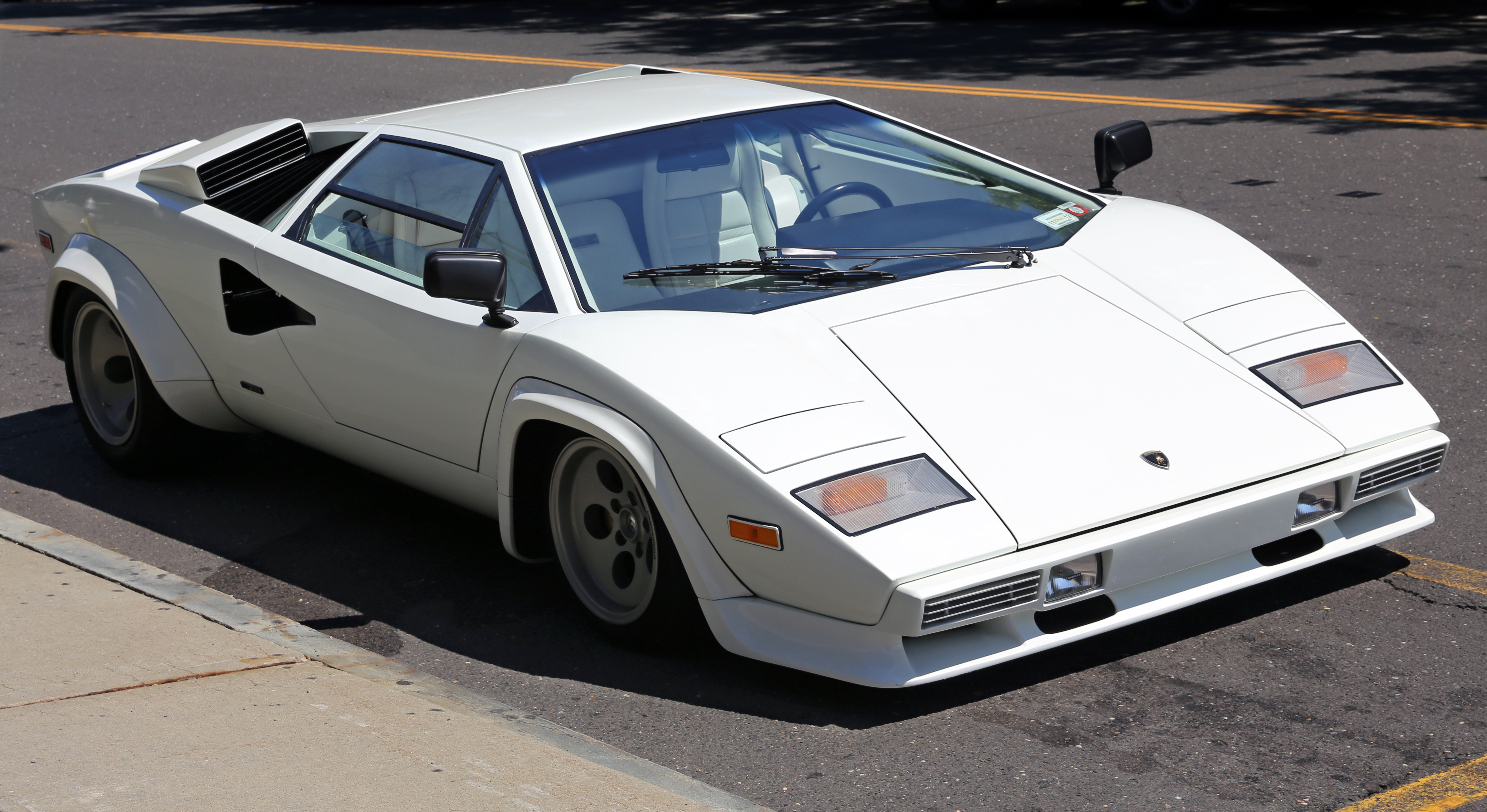 Front left 3/4 view of 1981 Lamborghini Countach LP400S, a late series 2 version.